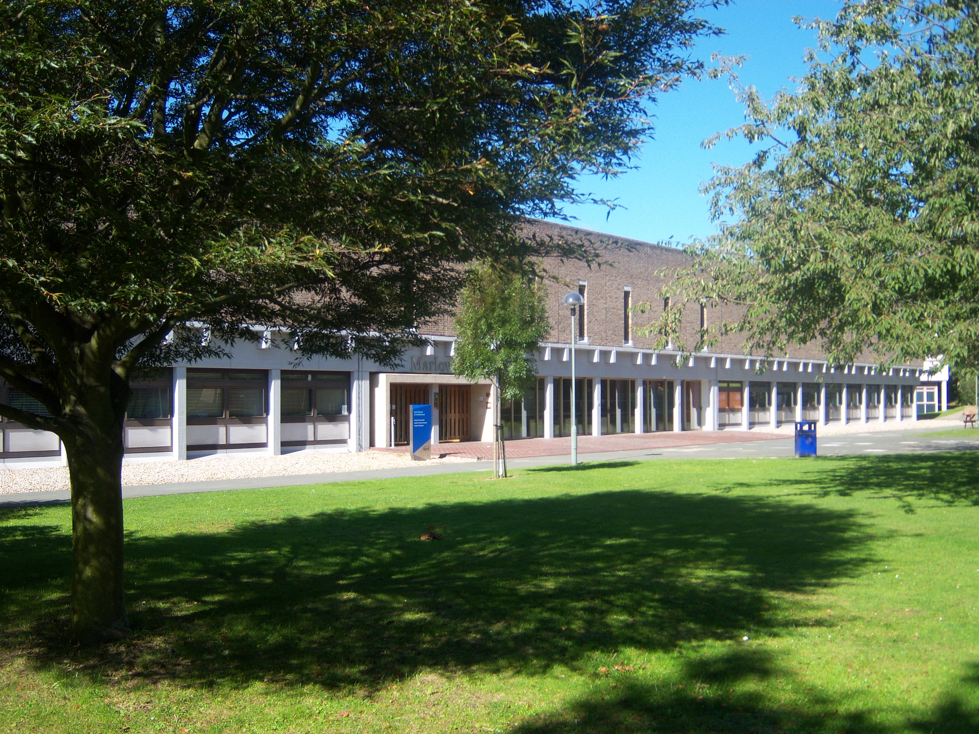 Marlow Building, University of kent, Canterbury, UK.